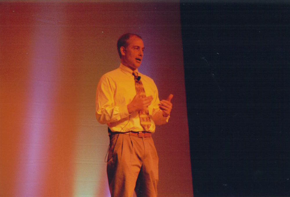 Star Wars Celebration (the 1st) - Ben Burtt, sound designer and editor